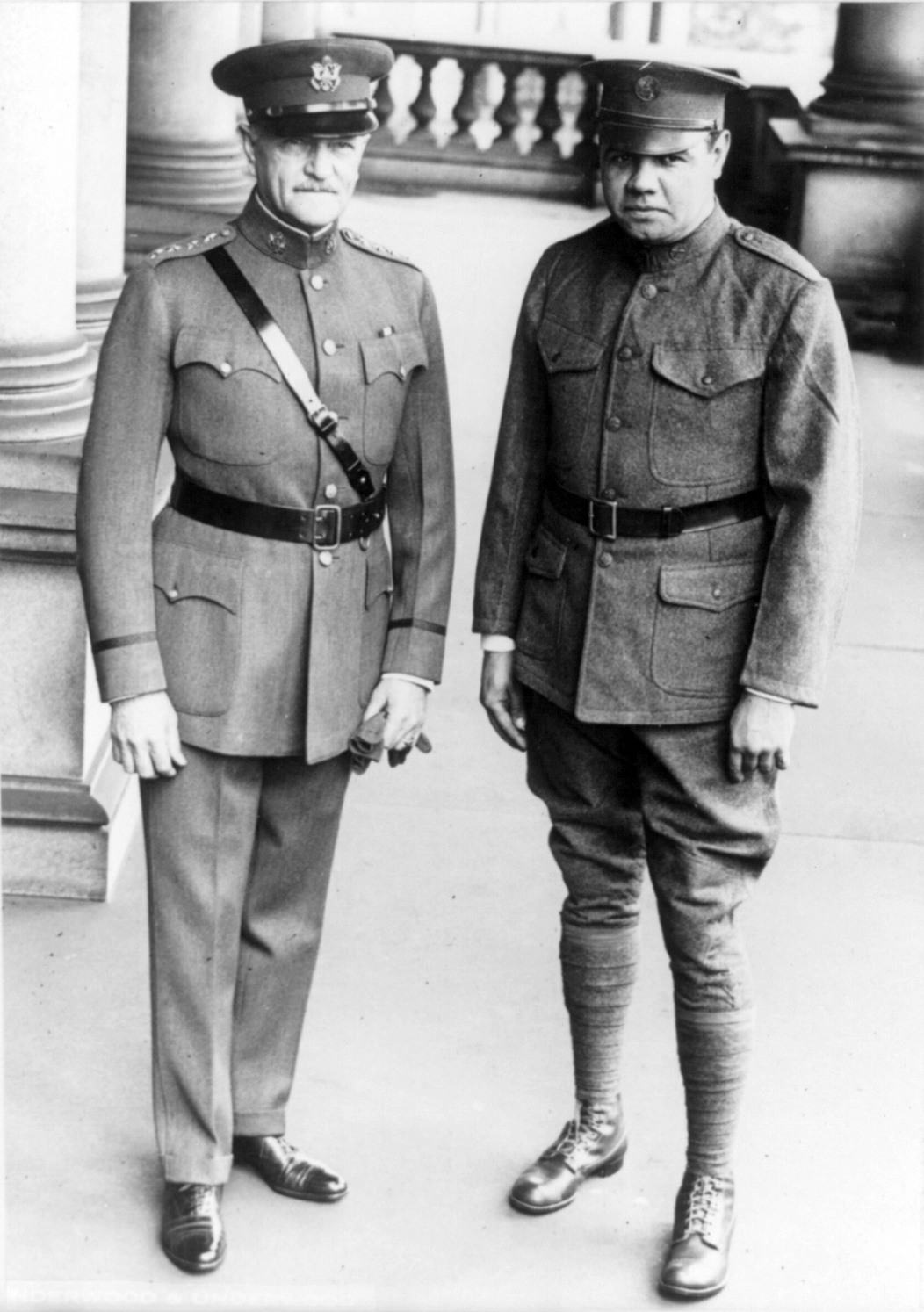 General John J. Pershing (left) and American baseball player Babe Ruth in army uniforms standing on the steps of the War Department.